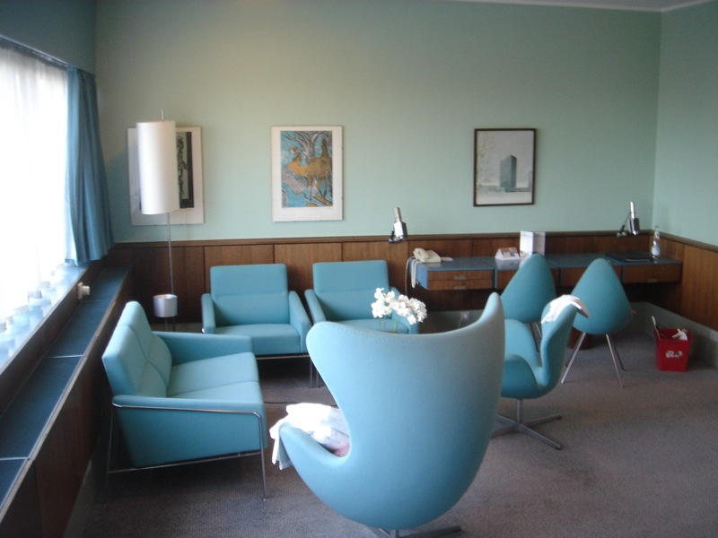 Room 606 of the Radisson SAS Royal Hotel in Copenhagen. Last room in Arne Jacobsen original design.